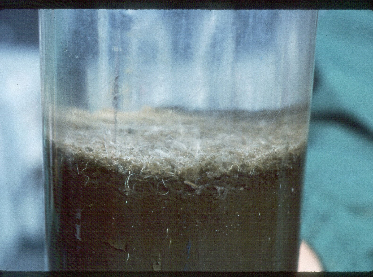 A tube core (8 cm diameter) collected from a Thioploca bacterial mat in the Peru-Chile OMZ. The mat, approximately 1 cm thick (0.4 in) thick, consists of many individual filaments of giant bacteria. Each filament extends into the sediment and the water, sources of sulfide and nitrate, respectively. Pacific Ocean, Chile Margin.